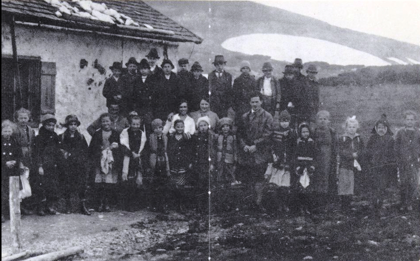 Wittgenstein with his pupils in 1923